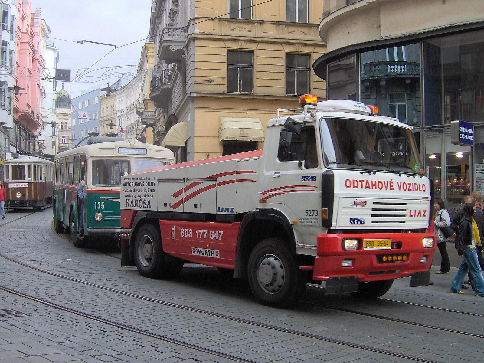 Moving of the Škoda 6Tr trolleybus by truck LIAZ 151.261, 140 years of public transport in Brno, Czech Republic